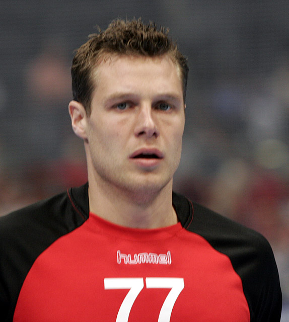 Michael V. Knudsen, handball player of SG Flensburg-Handewitt, in the Kölnarena prior the gane VfL Gummersbach - SG Flensburg-Handewitt